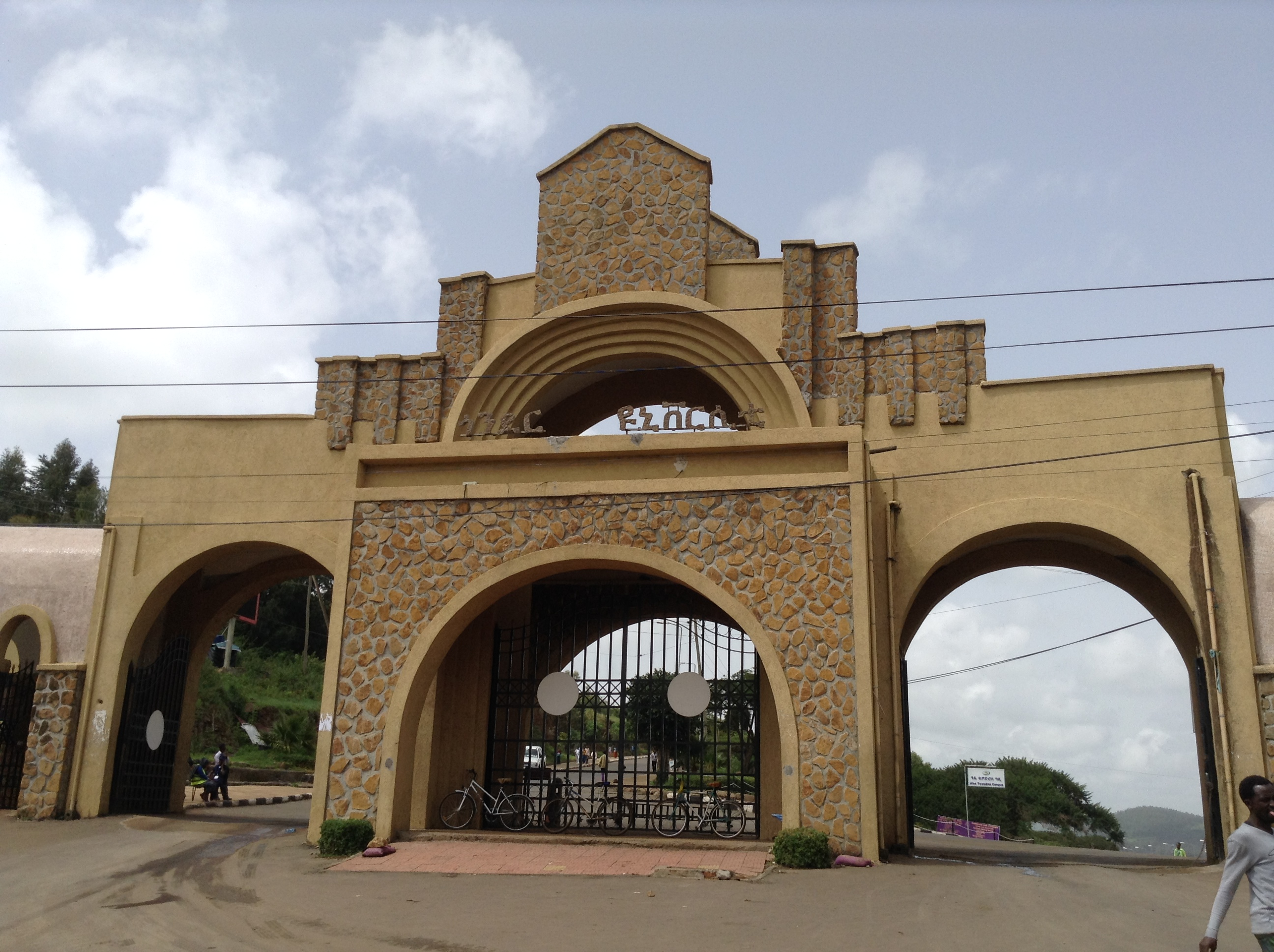 Entrance to University of Gondar